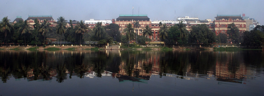 Reflection of Writers' Building on Lal Dighi